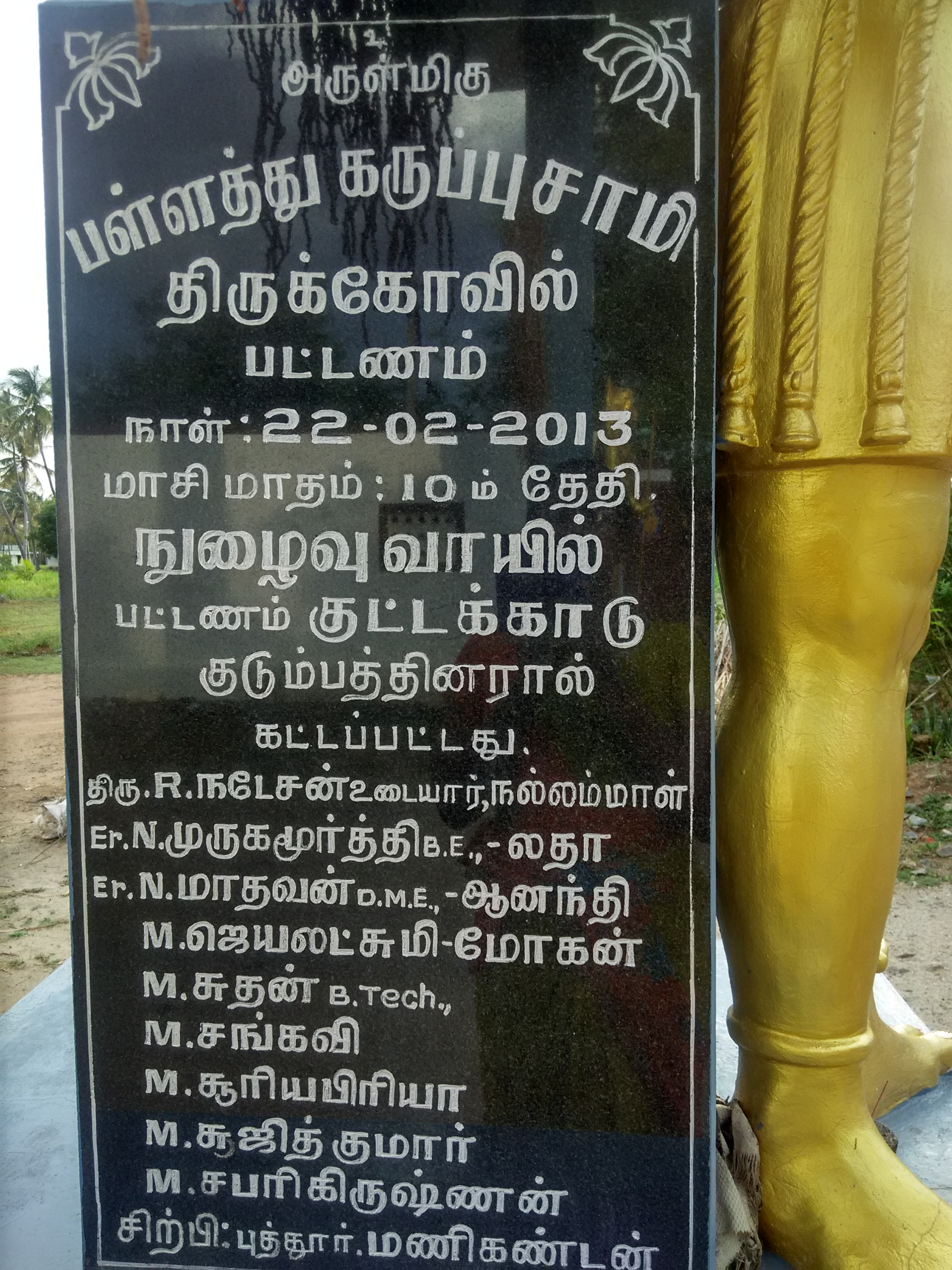 TEMPLE